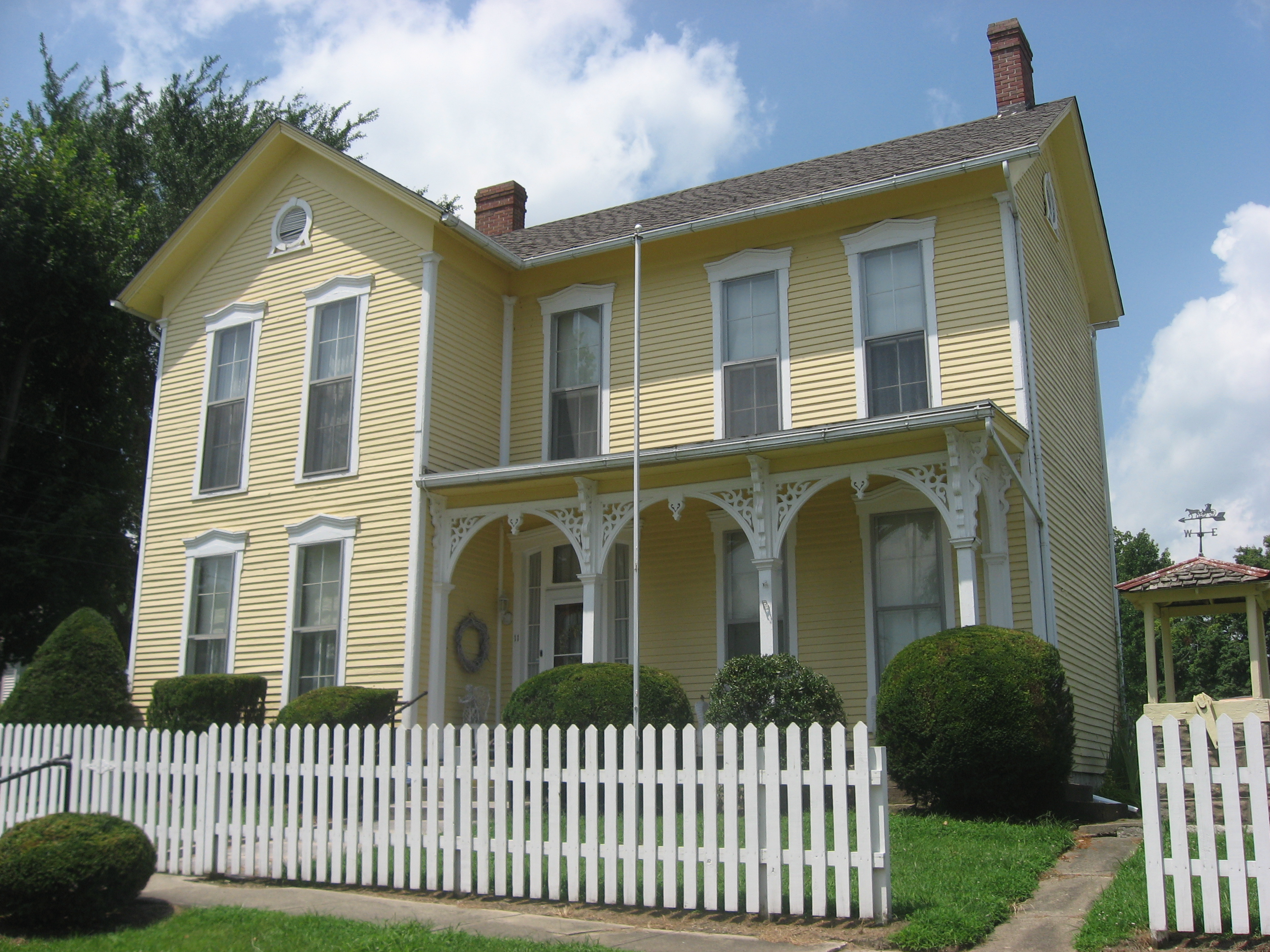 Front of the Dr. H.G. Osgood House, located at 11 E. North Street in Gosport, Indiana, United States. Built in 1850, it is listed on the National Register of Historic Places.